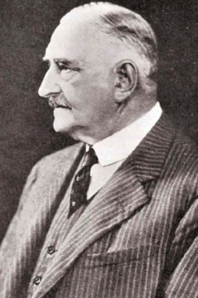 Sir Richard Garton of Worplesdon Place, Surrey